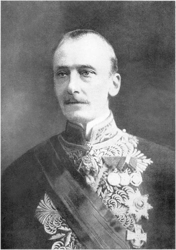 Austrohungarian diplomat and Foreign Affairs Minister, Count Ottokar von Czernin.